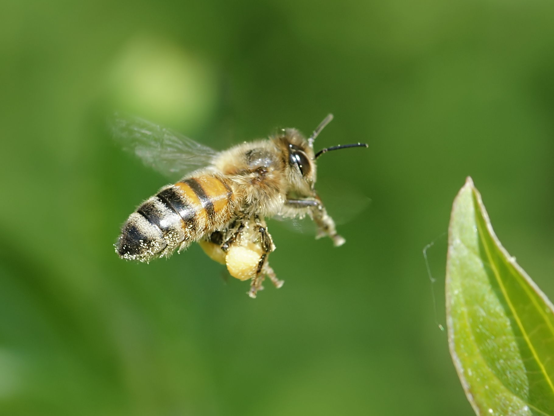 Honeybee at Torfbroek, Belgium